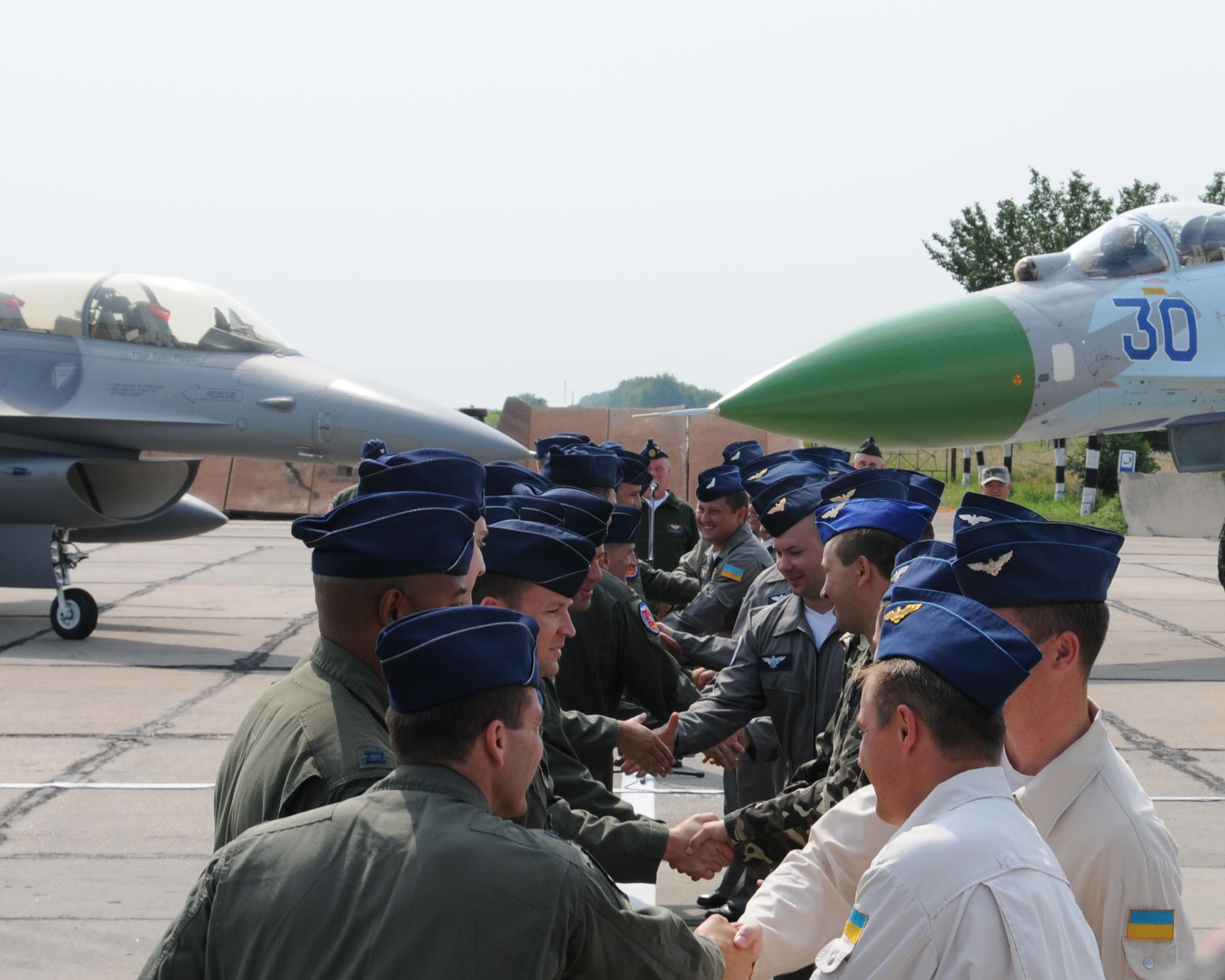 Soldiers are greeting each other during the exercise Safe Skies 2011